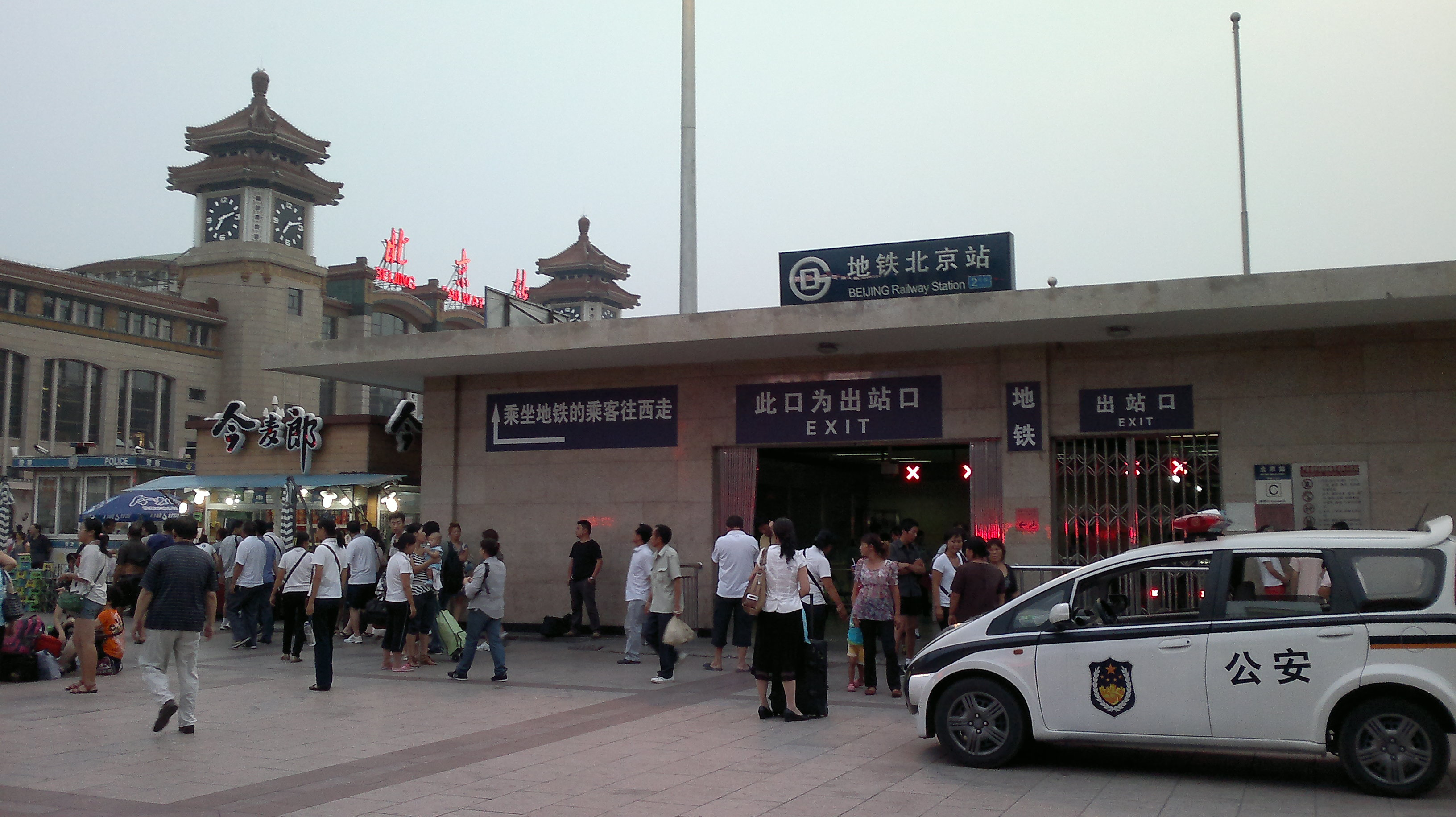 Beijing Railway Station, Beijing Subway Line 2